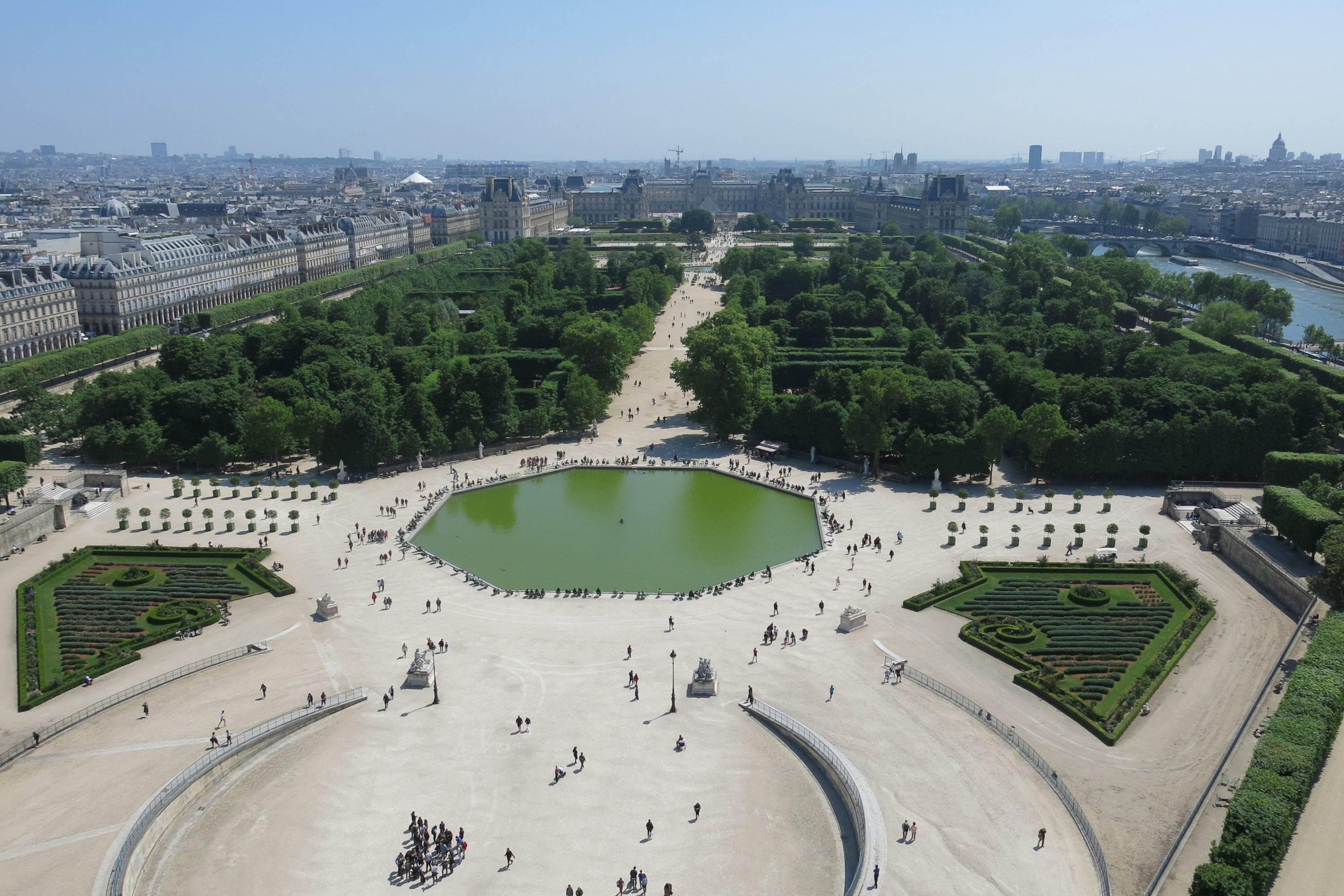 Grande Roue de Paris - The Louvre palace and the Tuileries gardens (Paris, 1st arrond., France)